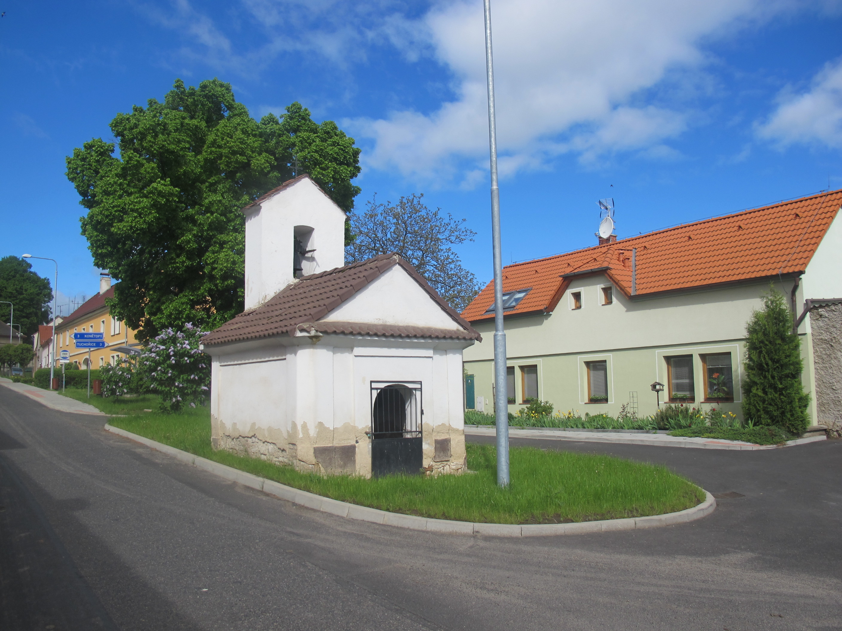 Chapel in Markvarec